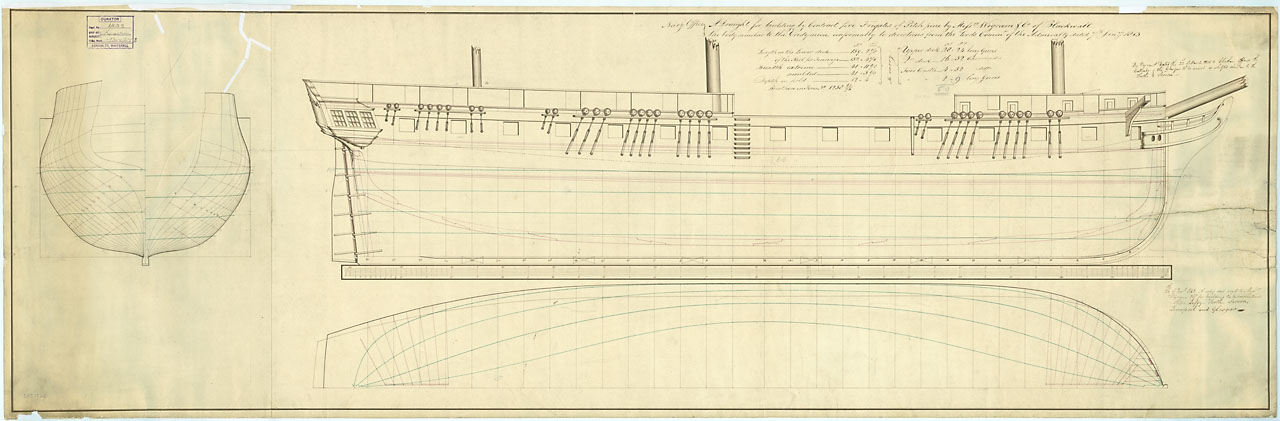 Liffey (1813); Forth (1813); Severn (1813); Liverpool (1814); Glasgow (1814) Scale: 1:48. Plan showing the body plan, sheer lines, and longitudinal half-breadth for Liffey (1813), Forth (1813), Severn (1813), Liverpool (1814), and Glasgow (1814), all fir-built 40-gun Fifth Rate Frigates to be built at Blackwall by Wigram, Wells & Green. The plan records that the body was similar to that of Endymion (1797), a 40-gun Fourth Rate Frigate. SEVERN 1813